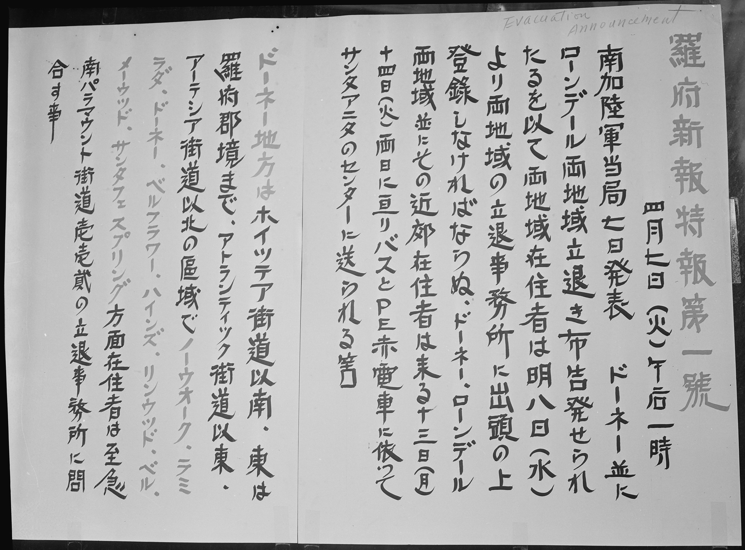 Scope and content: The full caption for this photograph reads: Los Angeles, California. Bulletin in Japanese, posted in window of store in "Little Tokyo" when residents of Japnese ancestry were instructed to evacuate. They will be assigned to War Relocation Authority centers for the duration.